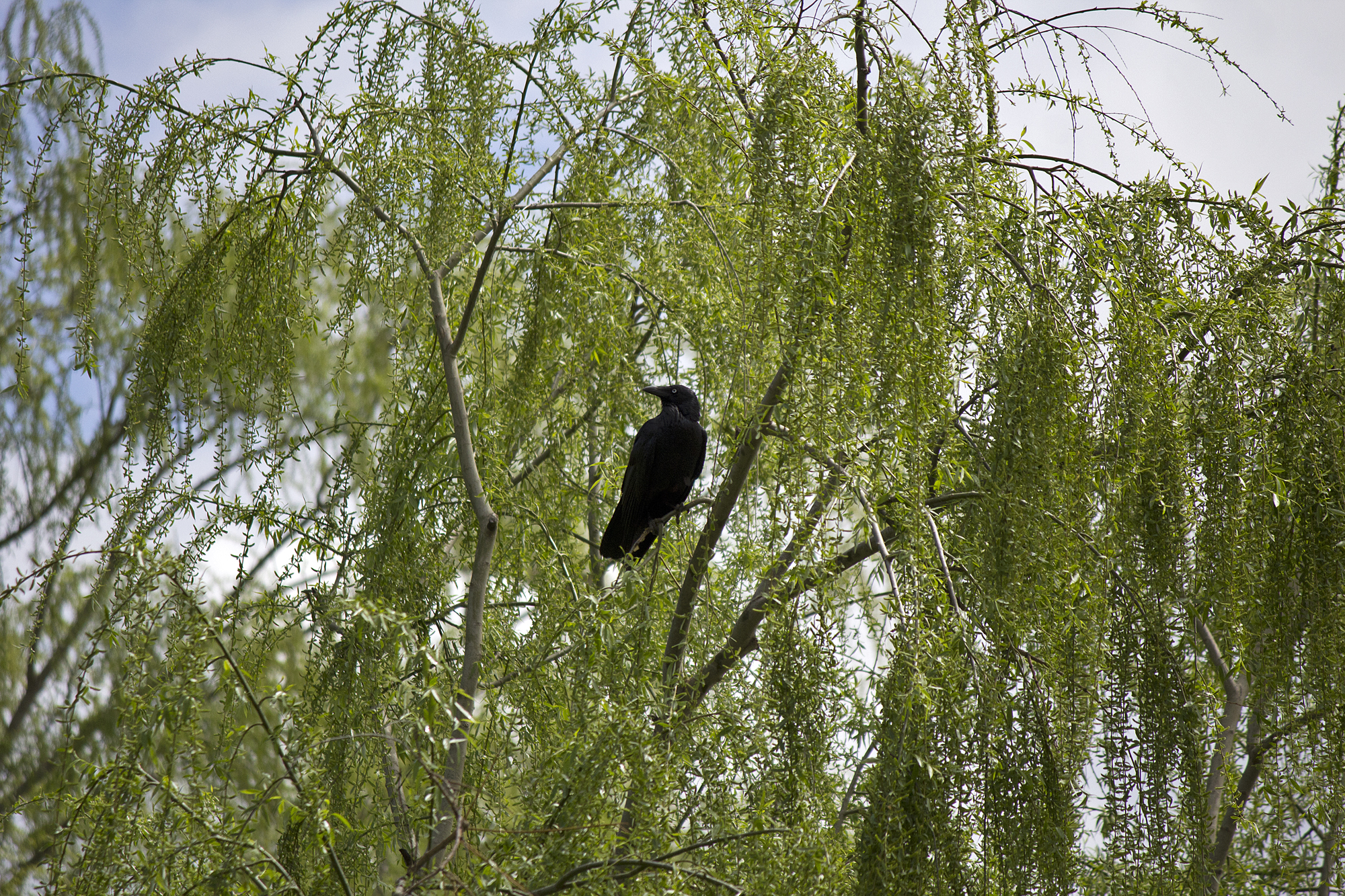 Australian Raven (Corvus coronoides) in a willow tree at Lake Albert in Wagga Wagga, New South Wales.